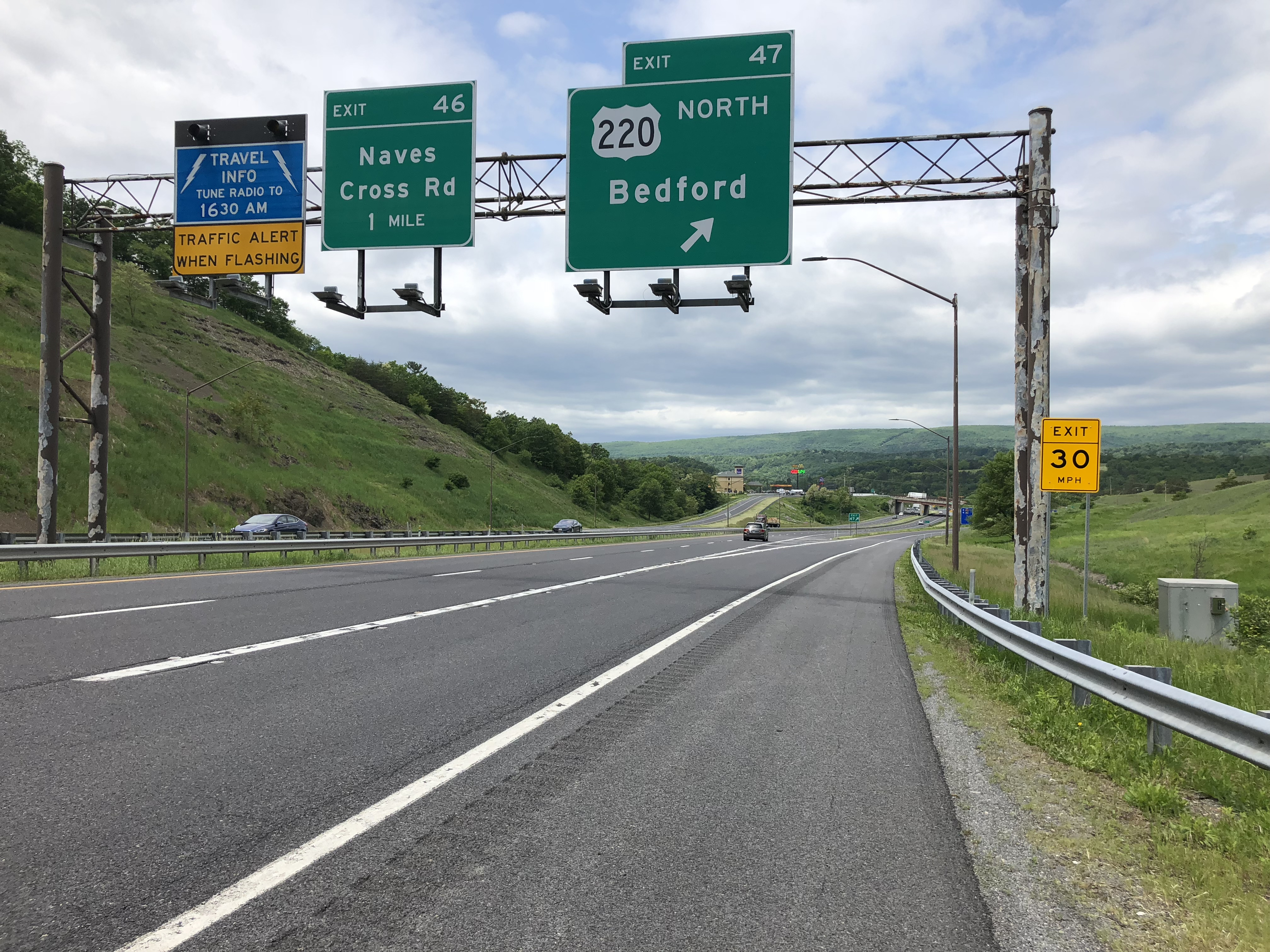 View west along Interstate 68 and U.S. Route 40 (National Freeway) at Exit 47 (U.S. Route 220 NORTH, Bedford) in Pleasant Grove, Allegany County, Maryland